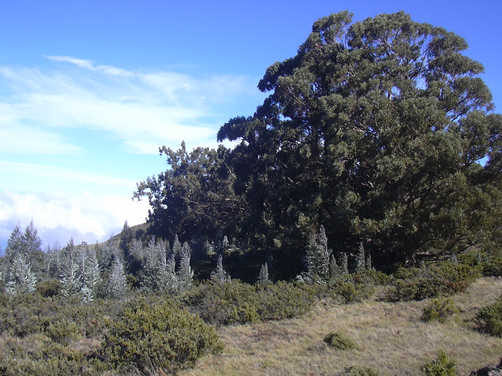 Eucalyptus globulus (spreading with pines). Location: Maui, Crater Road